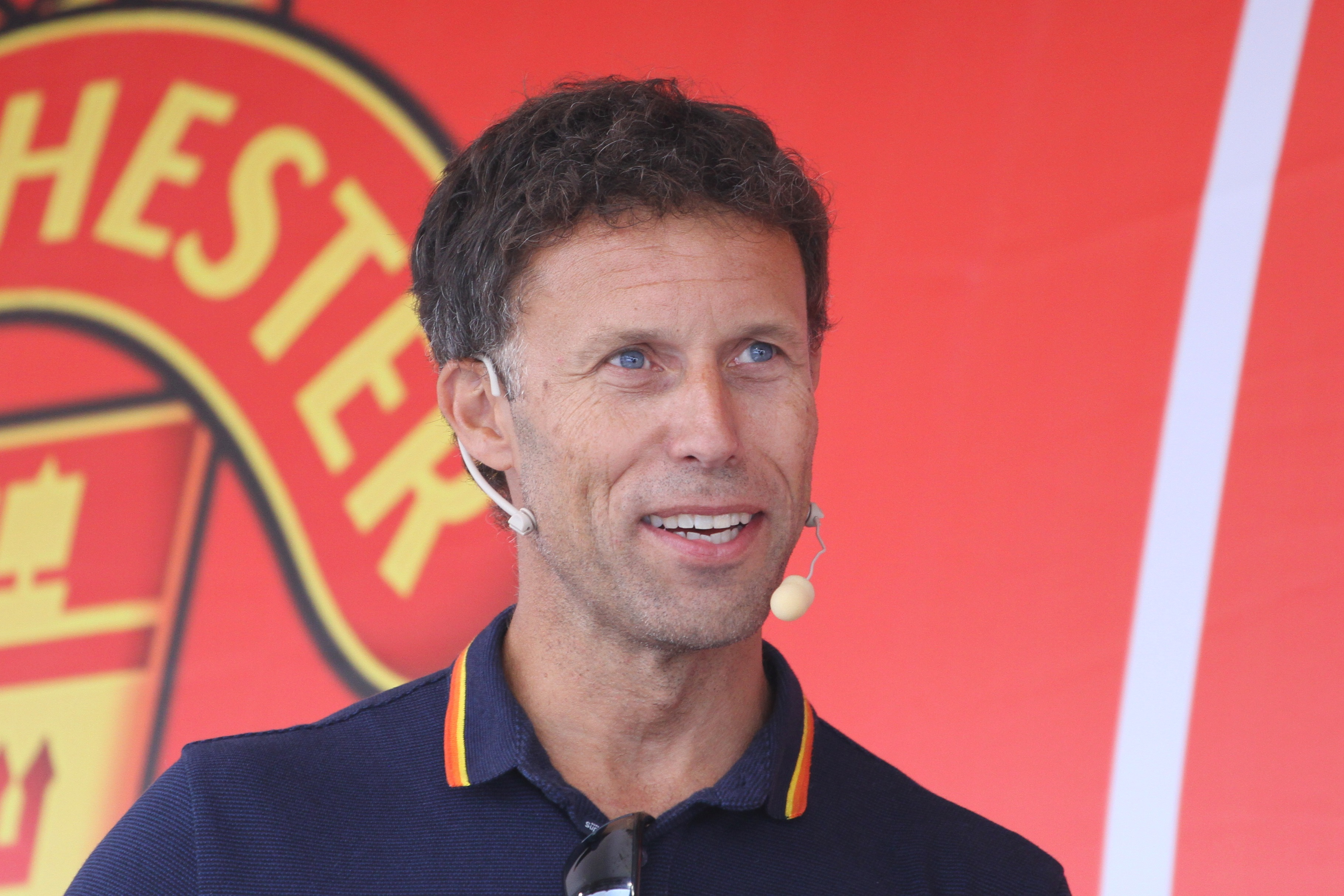 Ronny Johnsen, former football player.